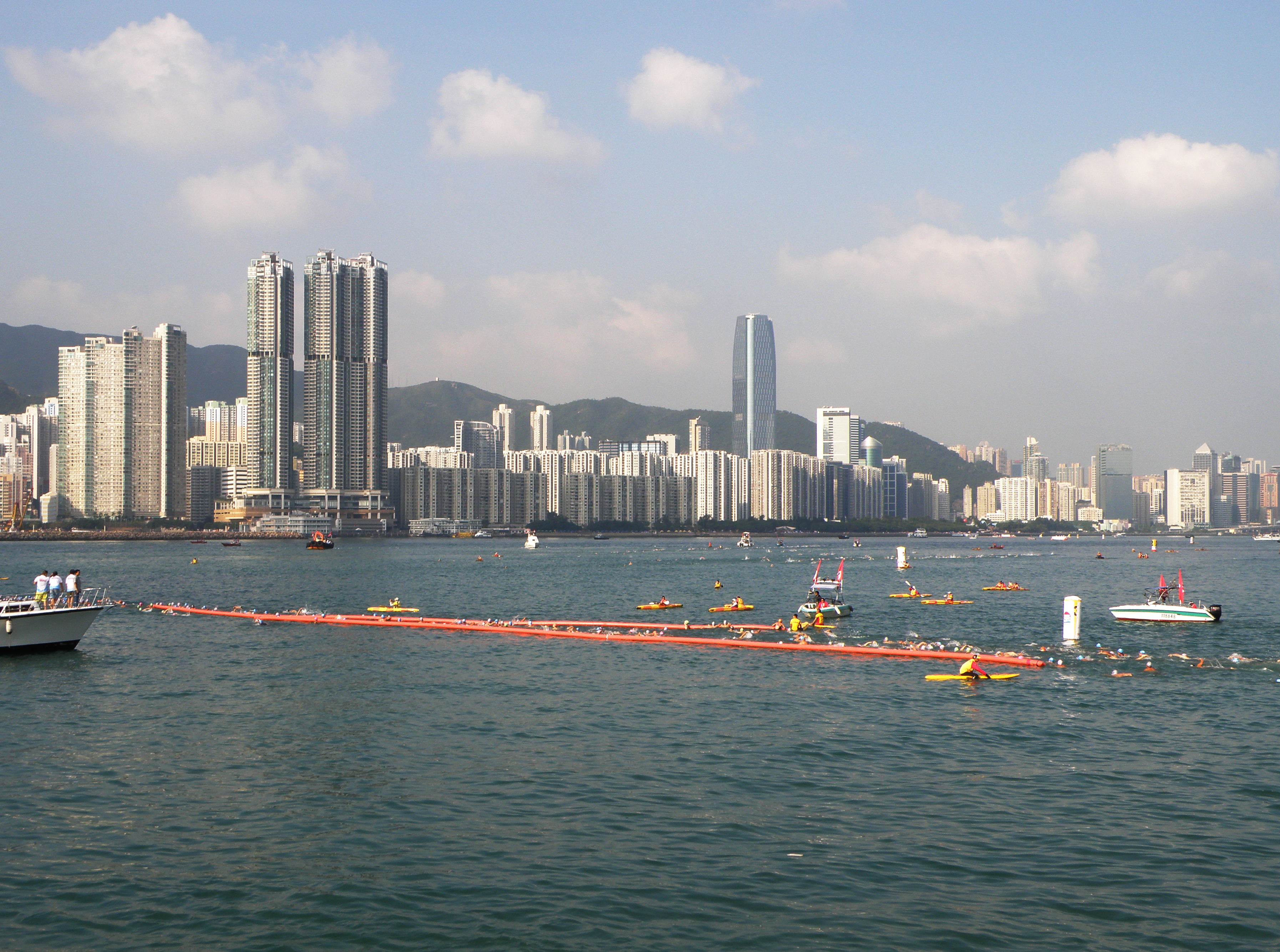 New World Harbour Race in Victoria Harbour, Hong Kong.